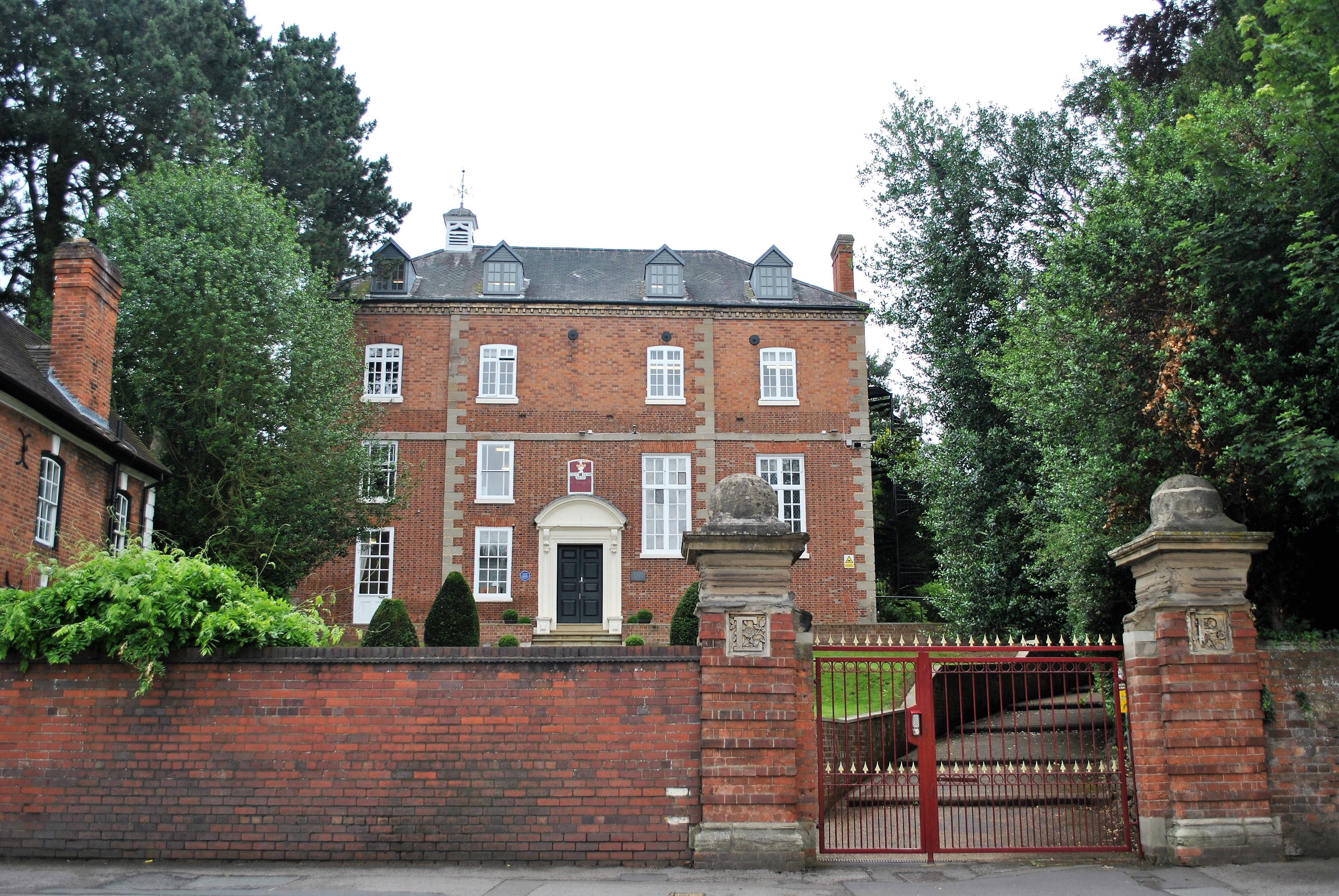 Bromsgrove School, founded in 1553, is a co-educational independent public school in the Worcestershire town of Bromsgrove, England.